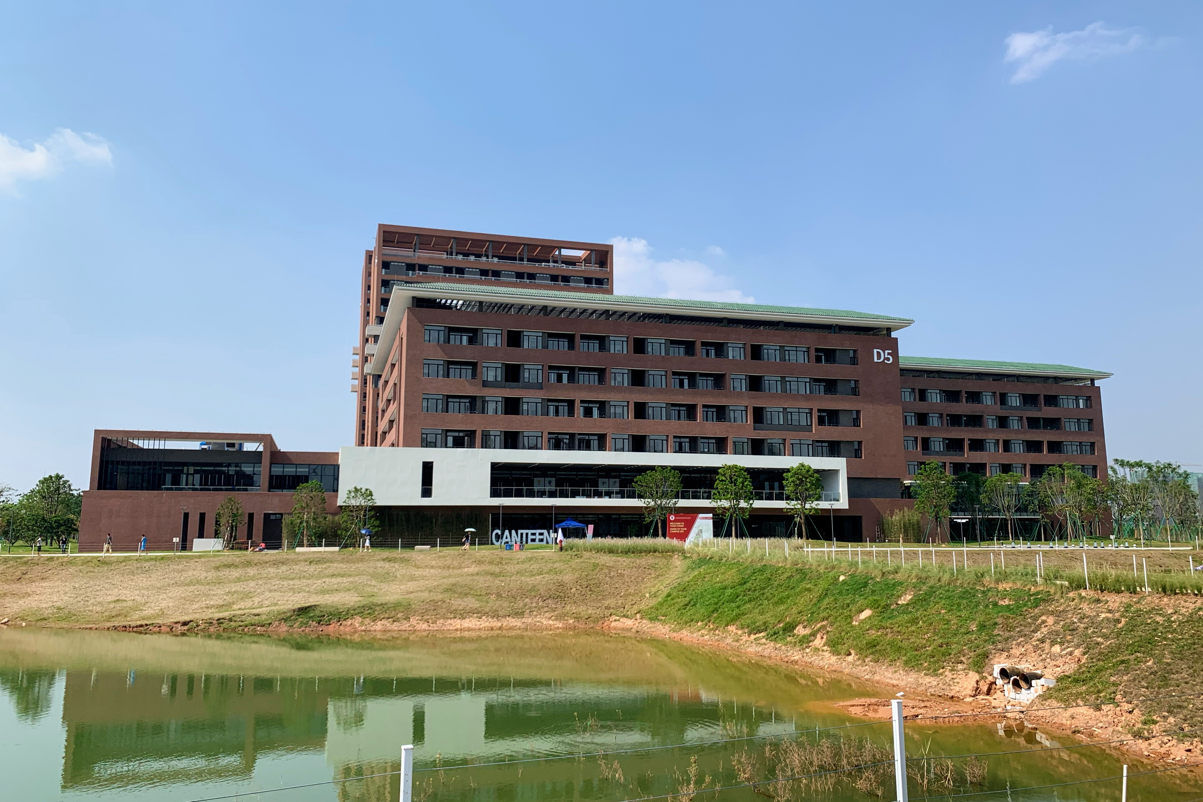 Southern part of Zone D5 of South China University of Technology (SCUT) Guangzhou International Campus (GZIC). The bridge and the lake belongs to Zone D4; building from left to right are D5-a, D5-b and D5-c.